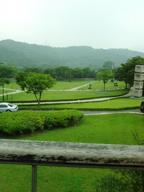 Sculpture Garden of the National Museum of Contemporary Art, Korea